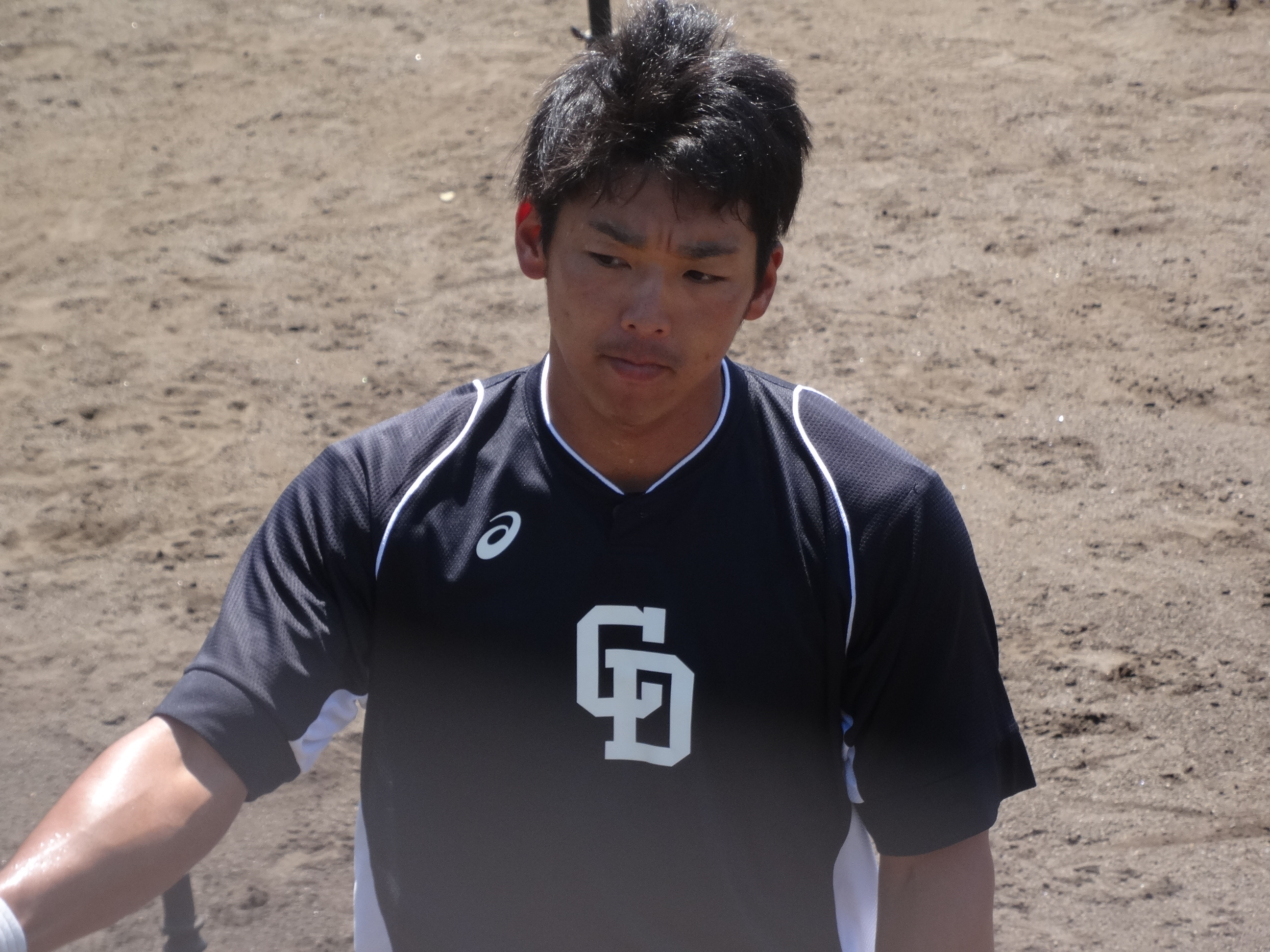 Masataka Iryo, outfielder of the Chunichi Dragons, at Hanshin Naruohama Baseball Ground